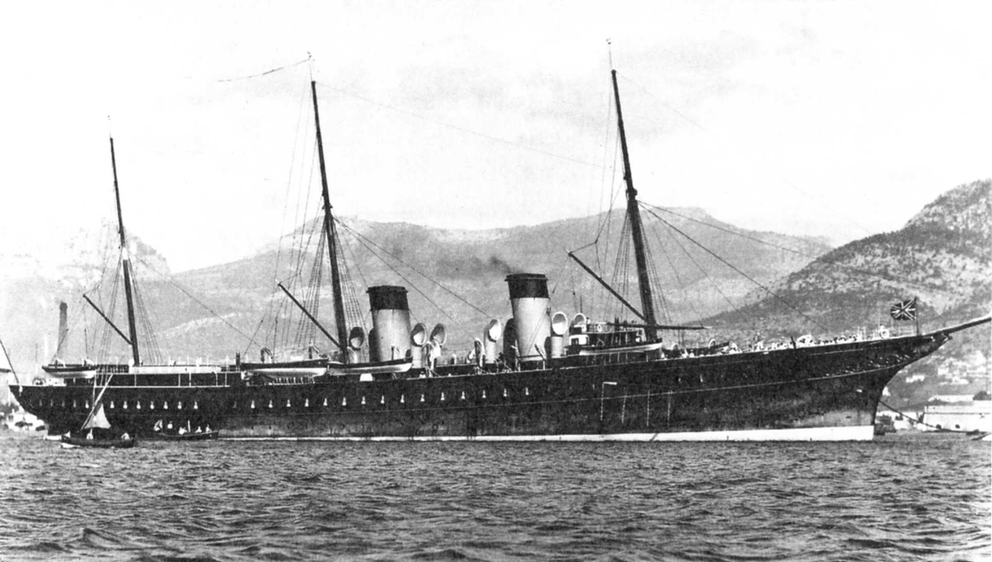 Russian Imperial yacht Standart in Toulon